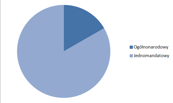 MANDATY DA MOLDOVA